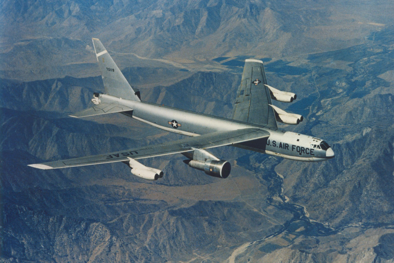 Boeing JB-52E (Serial Number 57-0119) in flight. This aircraft was used to test the General Electric TF39-GE-1C turbofan to be used in the new C-5A Galaxy. The test engine was located on the right inboard pylon and replaced the twin Pratt & Whitney J57 engines normally in that location. The single TF39 had about twice the thrust of the twin J57s it replaced.